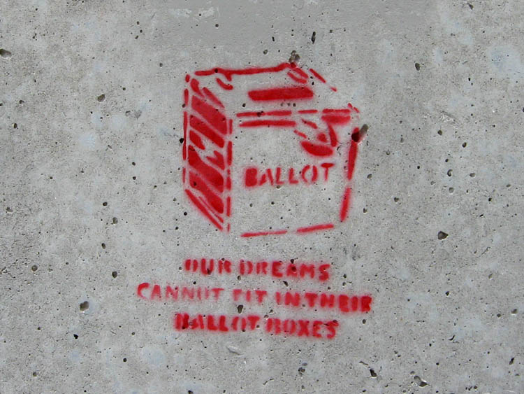 Stencil art in Madison, Wisconsin. Image taken on August 7, 2007Our dreams